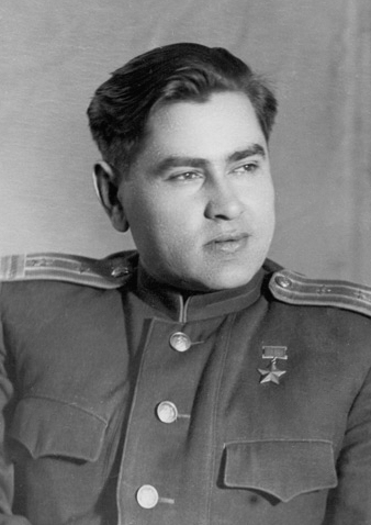 Soviet Air Force fighter pilot & flying ace Alexey Maresyev